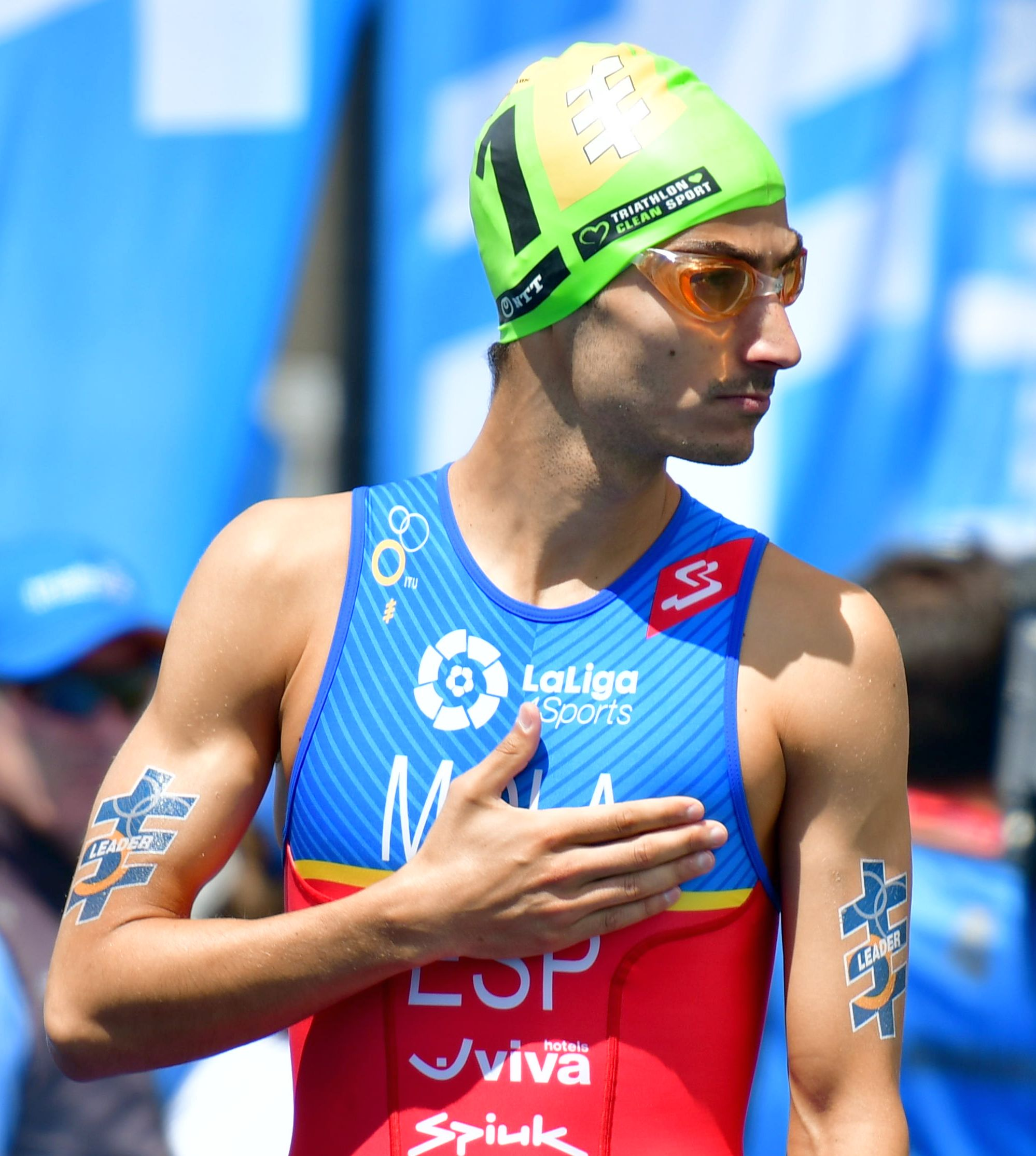 Mario Mola taking a moment before the race at the 2017 ITU World Triathlon Series in Montreal.